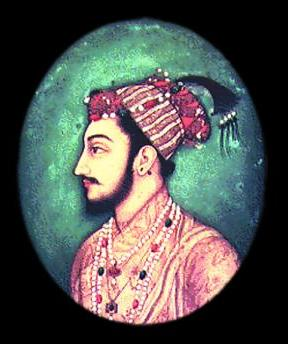 A miniature of Dara Shikoh, Mughal Prince